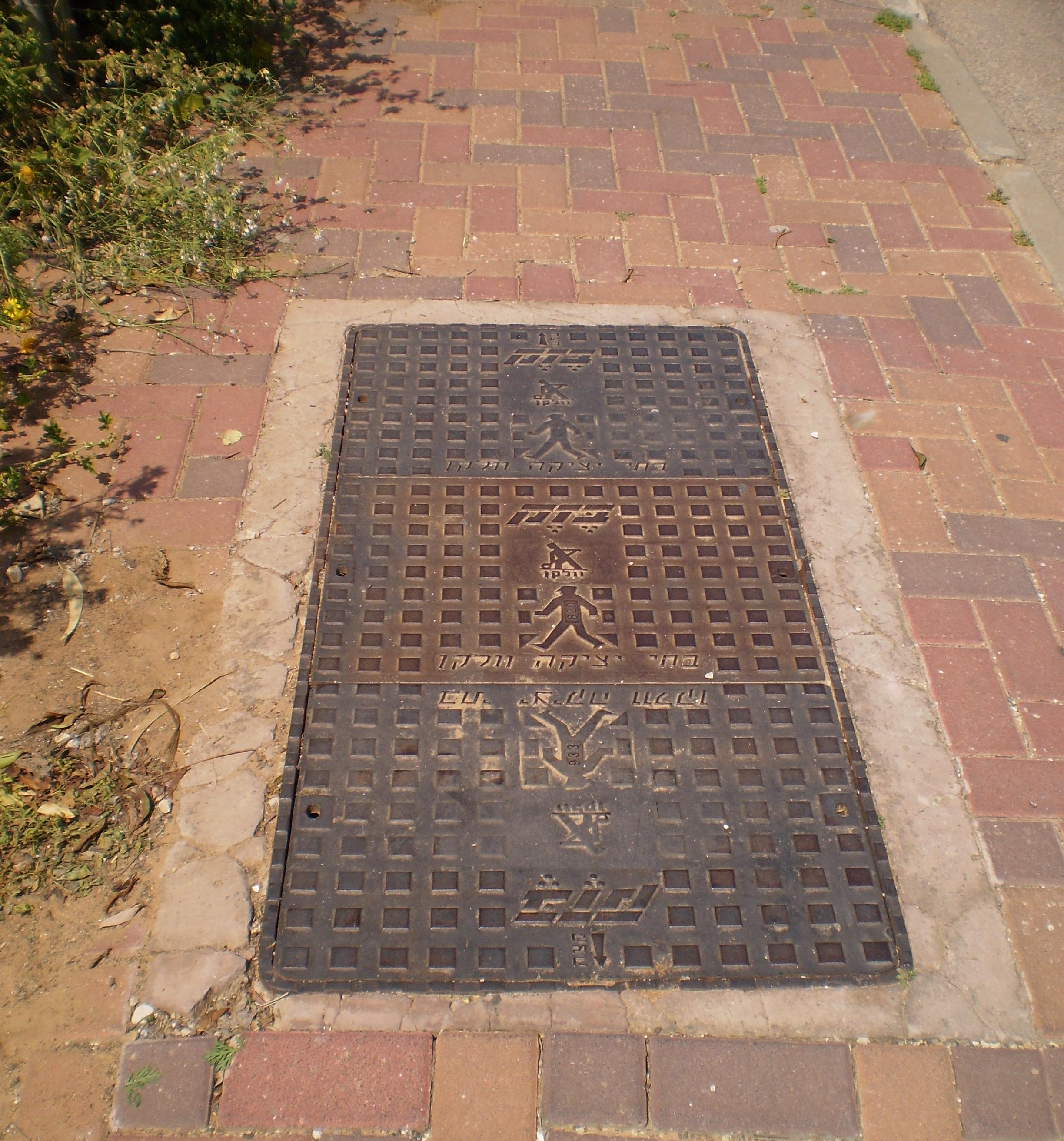 Cover to telephone infrastructure on the sidewalk